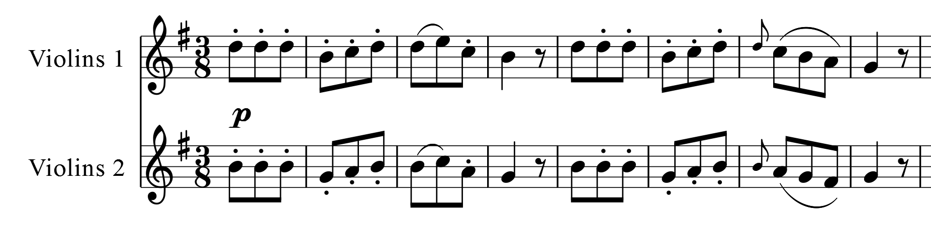 Joseph Haydn, Symphony No. 8, first movement, bar 1-8, violin 1 and 2